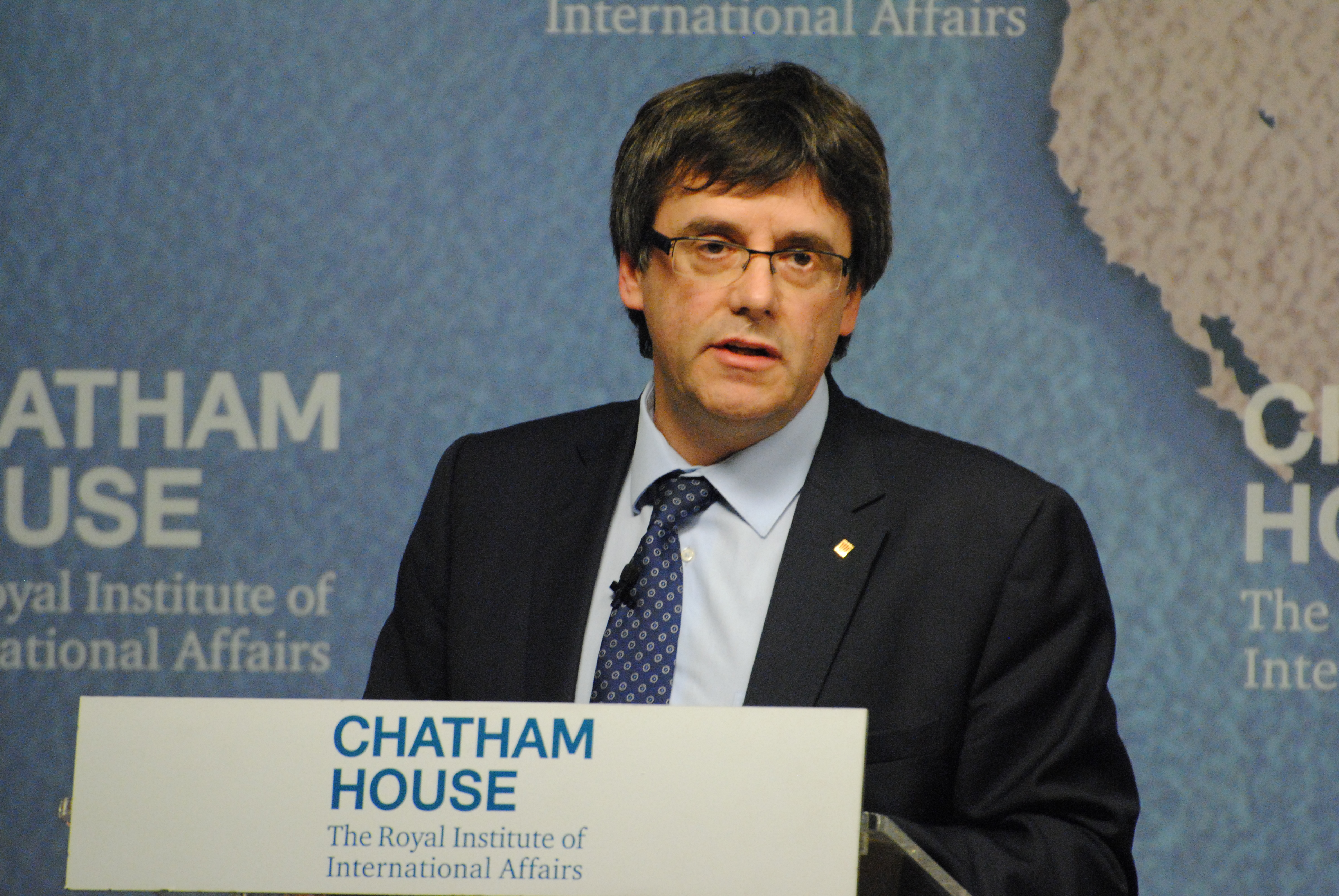 Mapping a Path Towards Catalan Independence, 12 May 2016, cht.hm/1XoCfjm